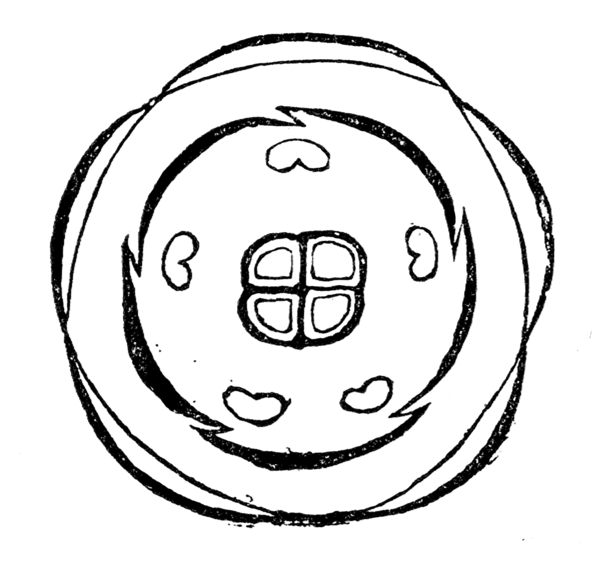 flower diagram of Echium vulgare